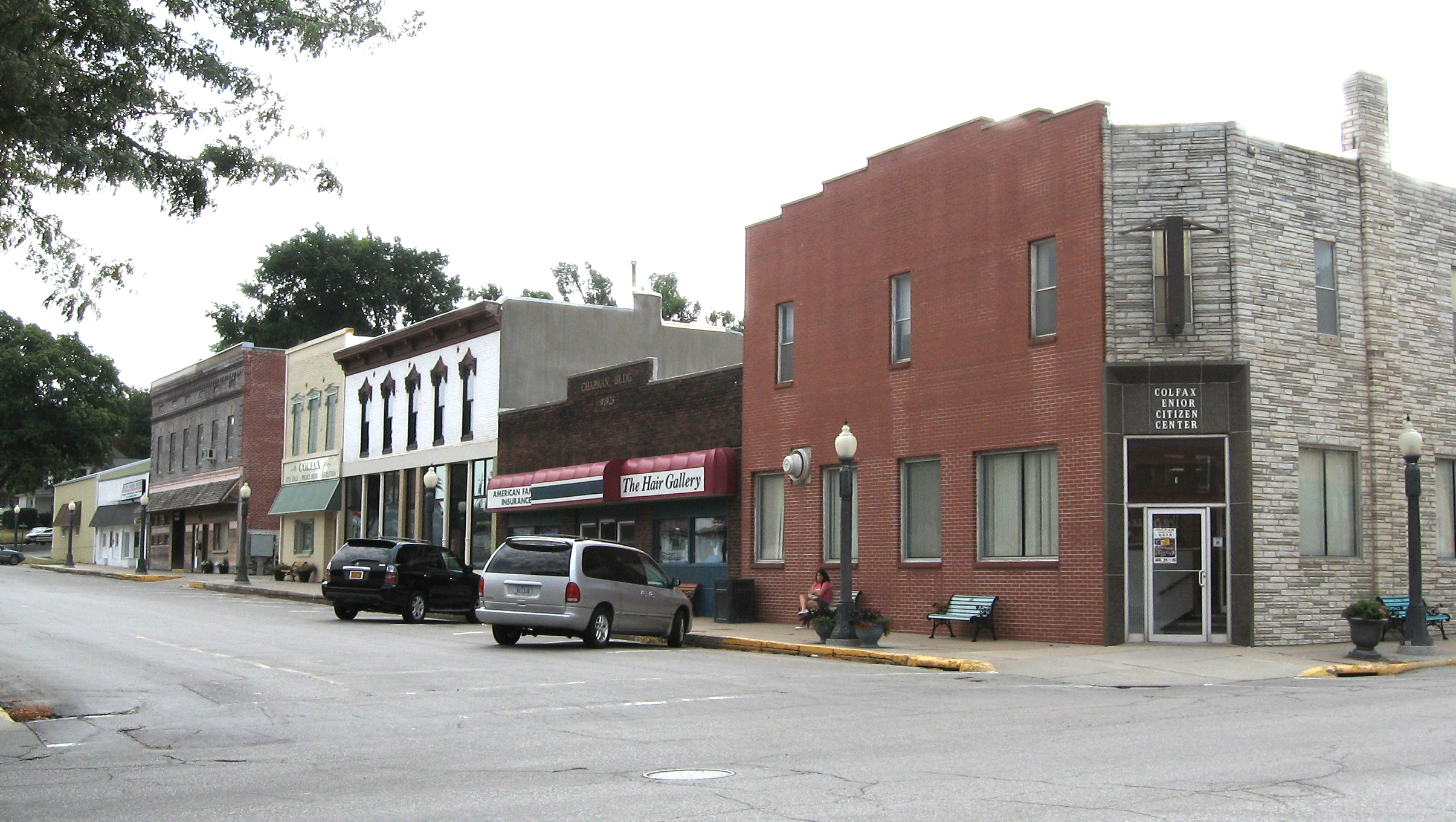 Colfax, Iowa, 2007